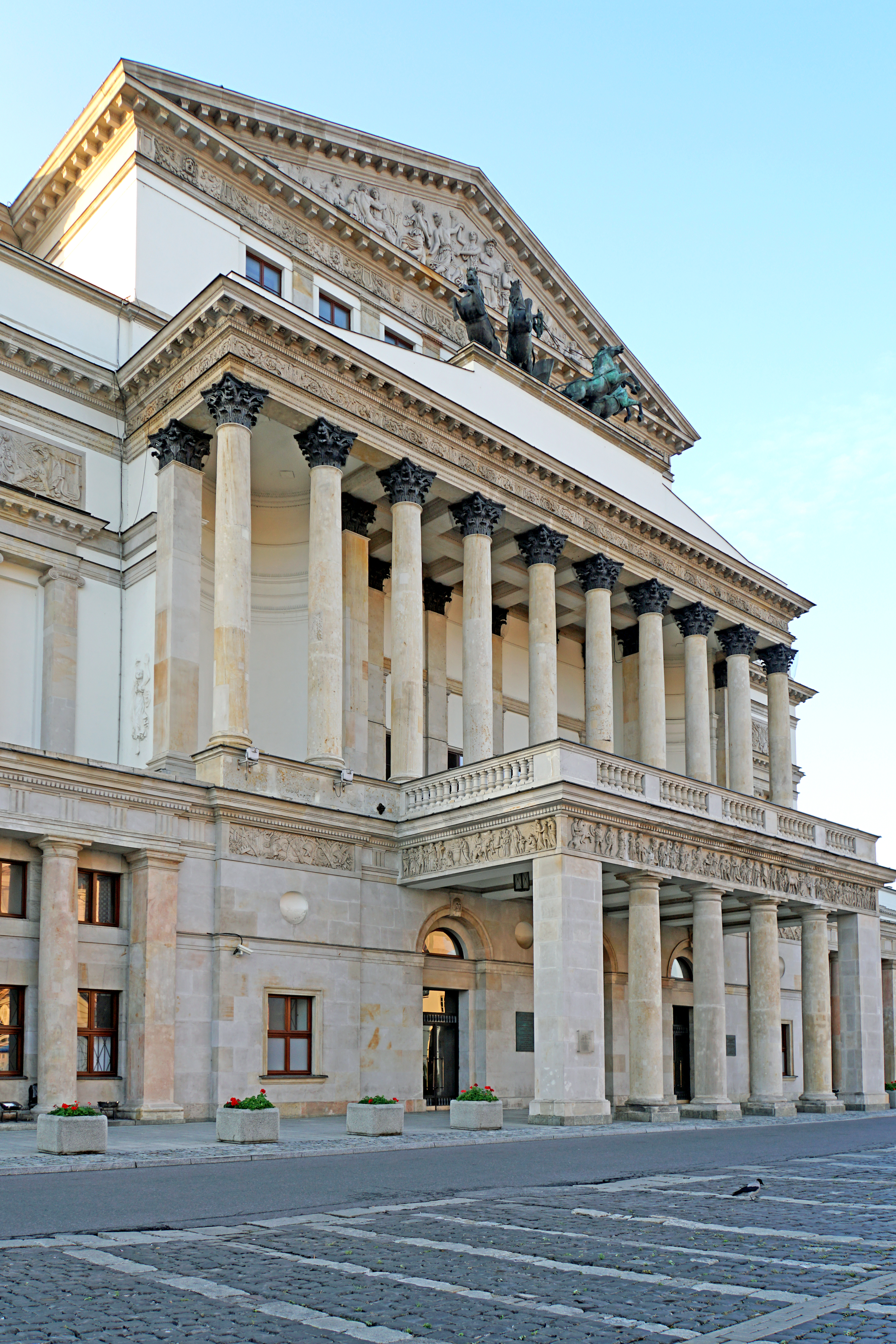 PLEASE, NO invitations or self promotions, THEY WILL BE DELETED. My photos are FREE to use, just give me credit and it would be nice if you let me know, thanks. I could not get the picture I wanted, had to take this angled shot because of construction work being done in front of the building. The Grand Theatre - National Opera is a theatre complex and opera company located on historic Theatre Square. It is one of the largest theatres in Europe. The theatre was inaugurated on February 24, 1833. After the building's bombing and near-complete destruction in World War II, the theatre was rebuilt, and the building reopened on November 19, 1965, after having been closed for over twenty years.